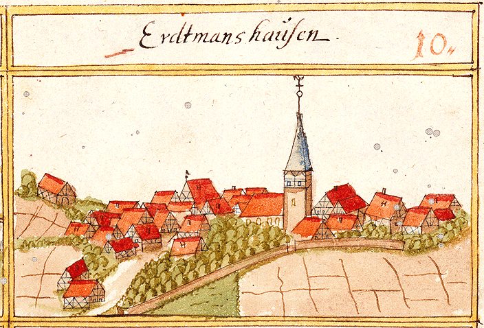 View of Erdmannhausen from the forest register books created by Andreas Kieser